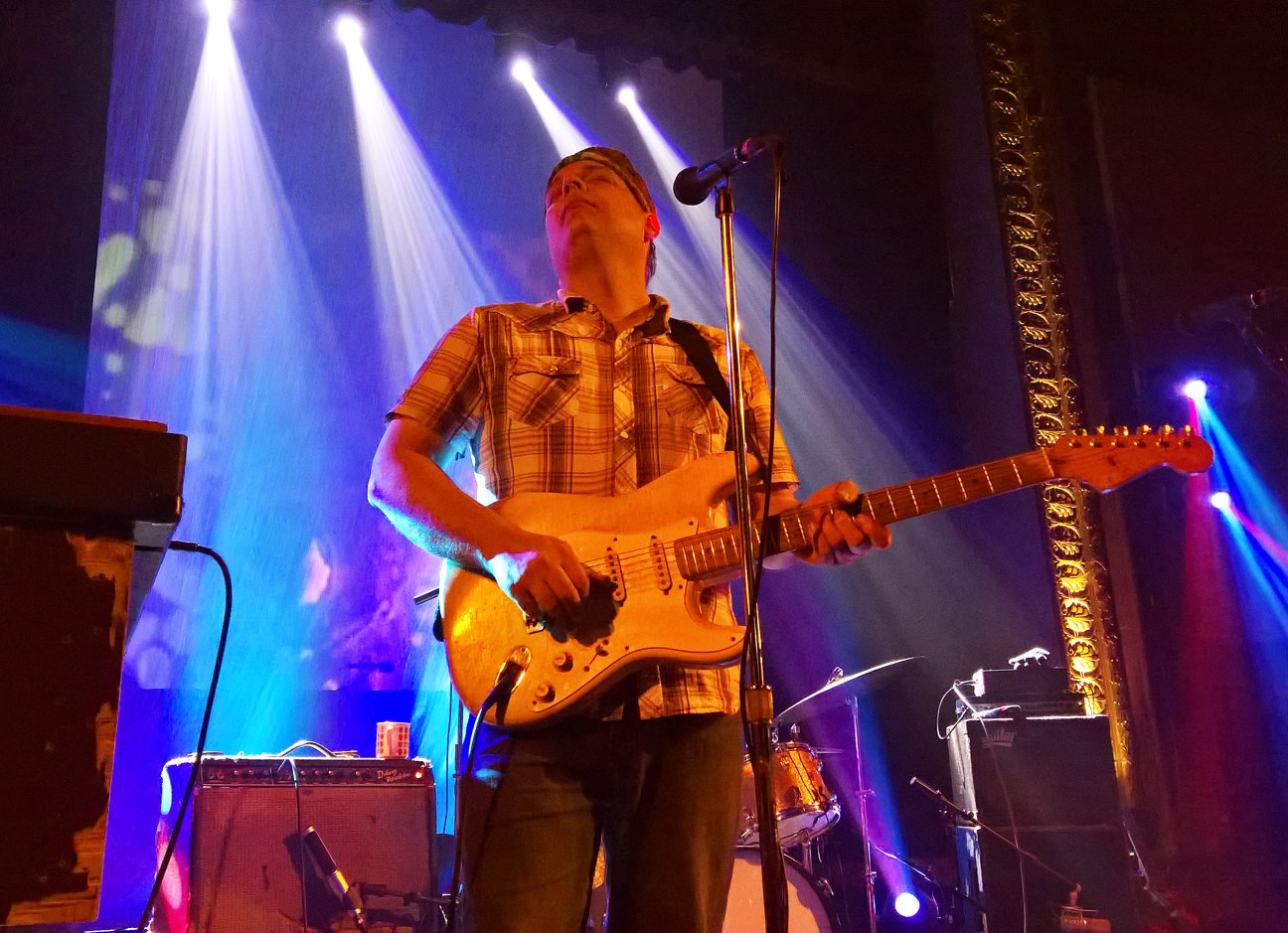 Jeb Puryear of Donna The Buffalo performing